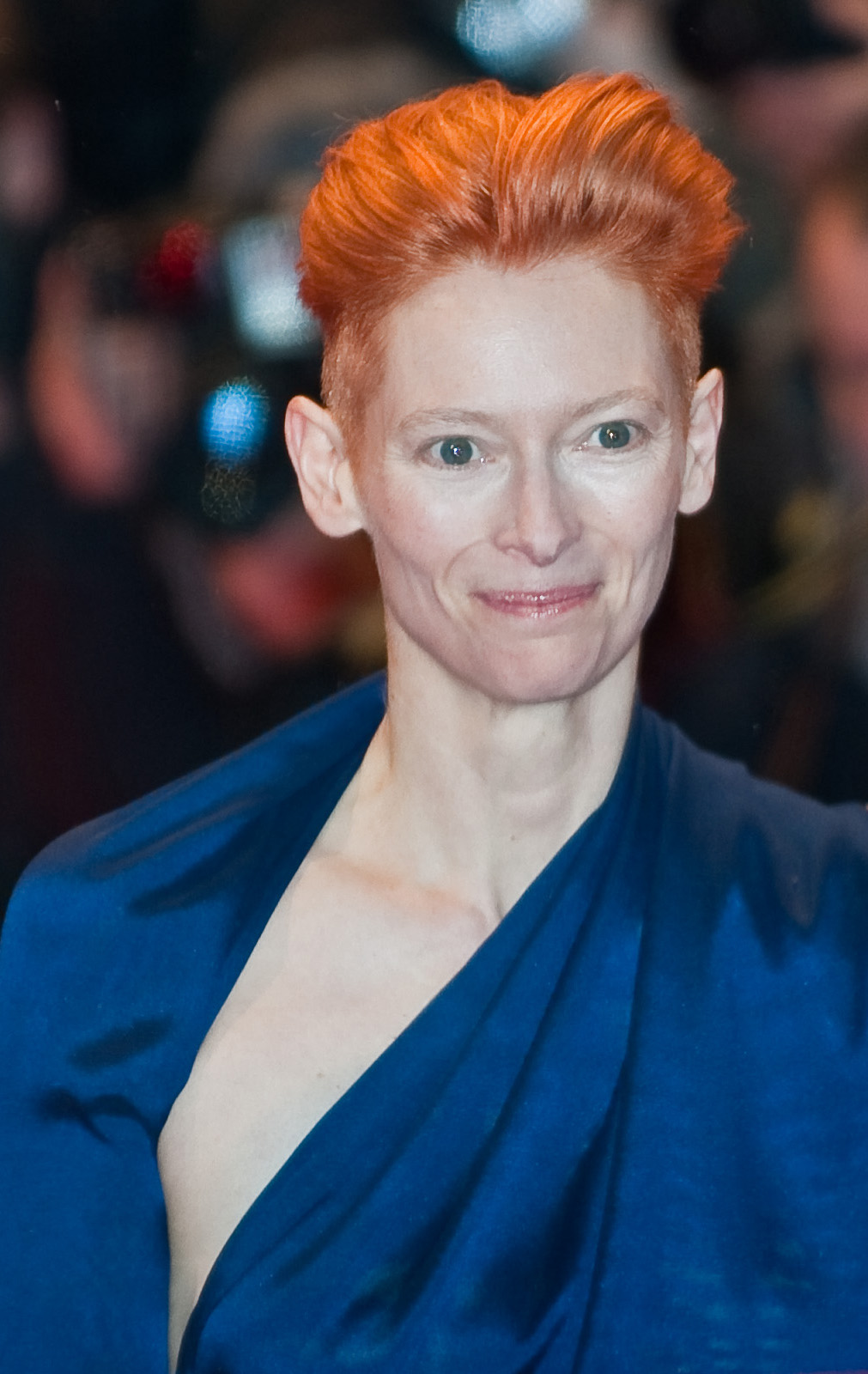 British actress and last year president of the jury Tilda Swinton arriving at the opening of the 60th Berlin International Film Festival